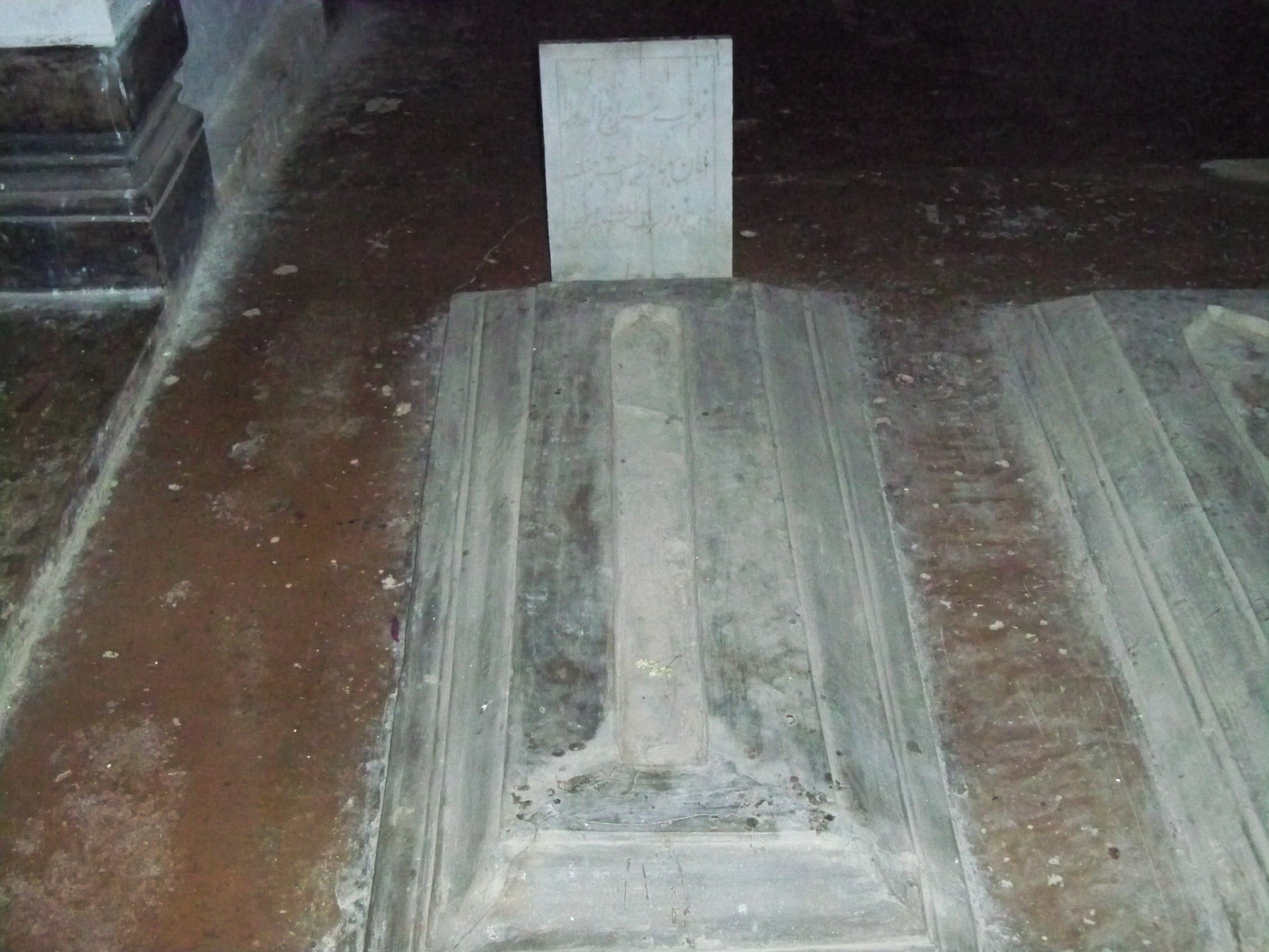 Tomb of Alivardi Khan & the tomb of Seraj-ud-daullah